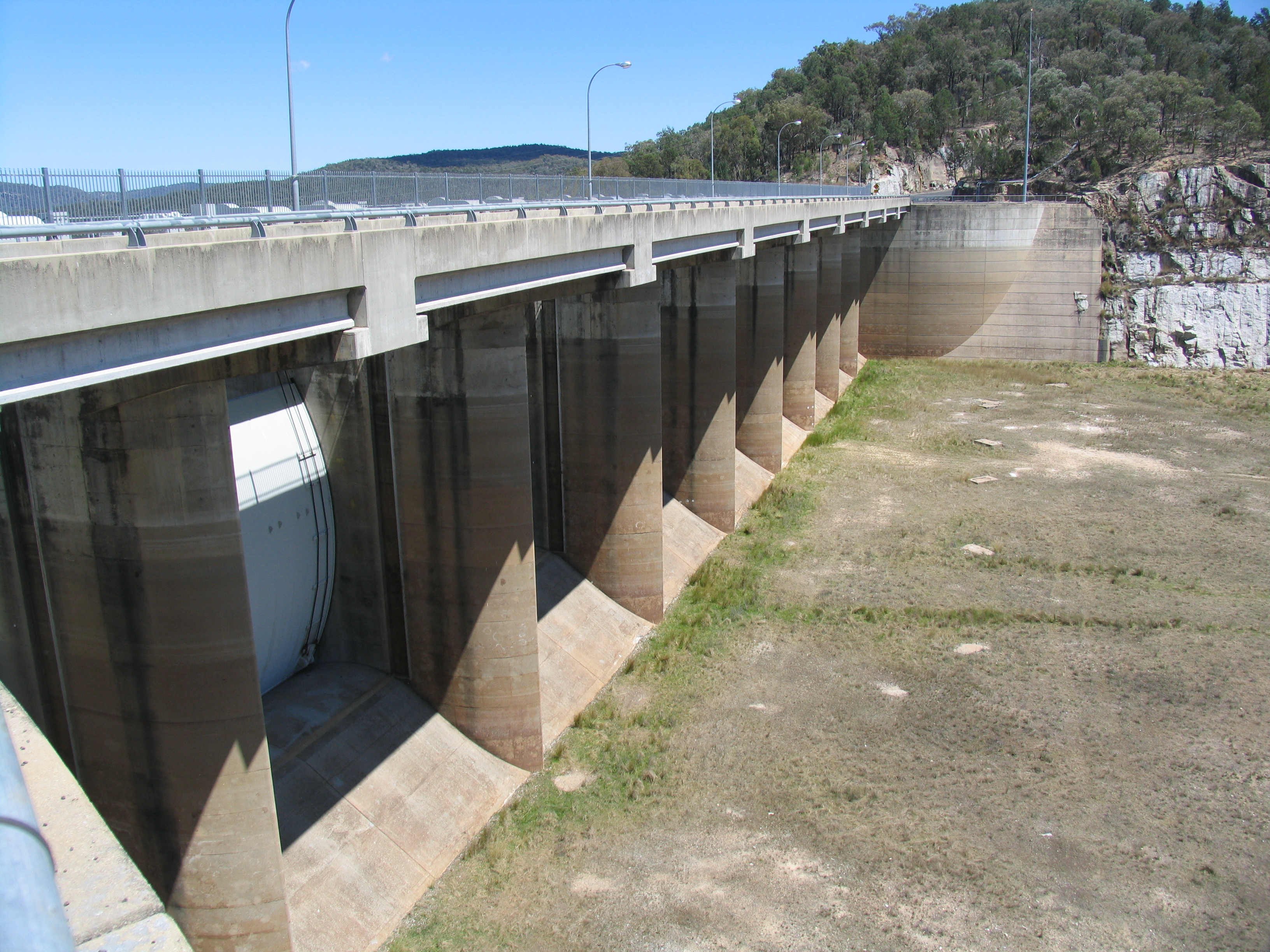 Copeton Dam spillway as viewed from the north-eastern side, Australia